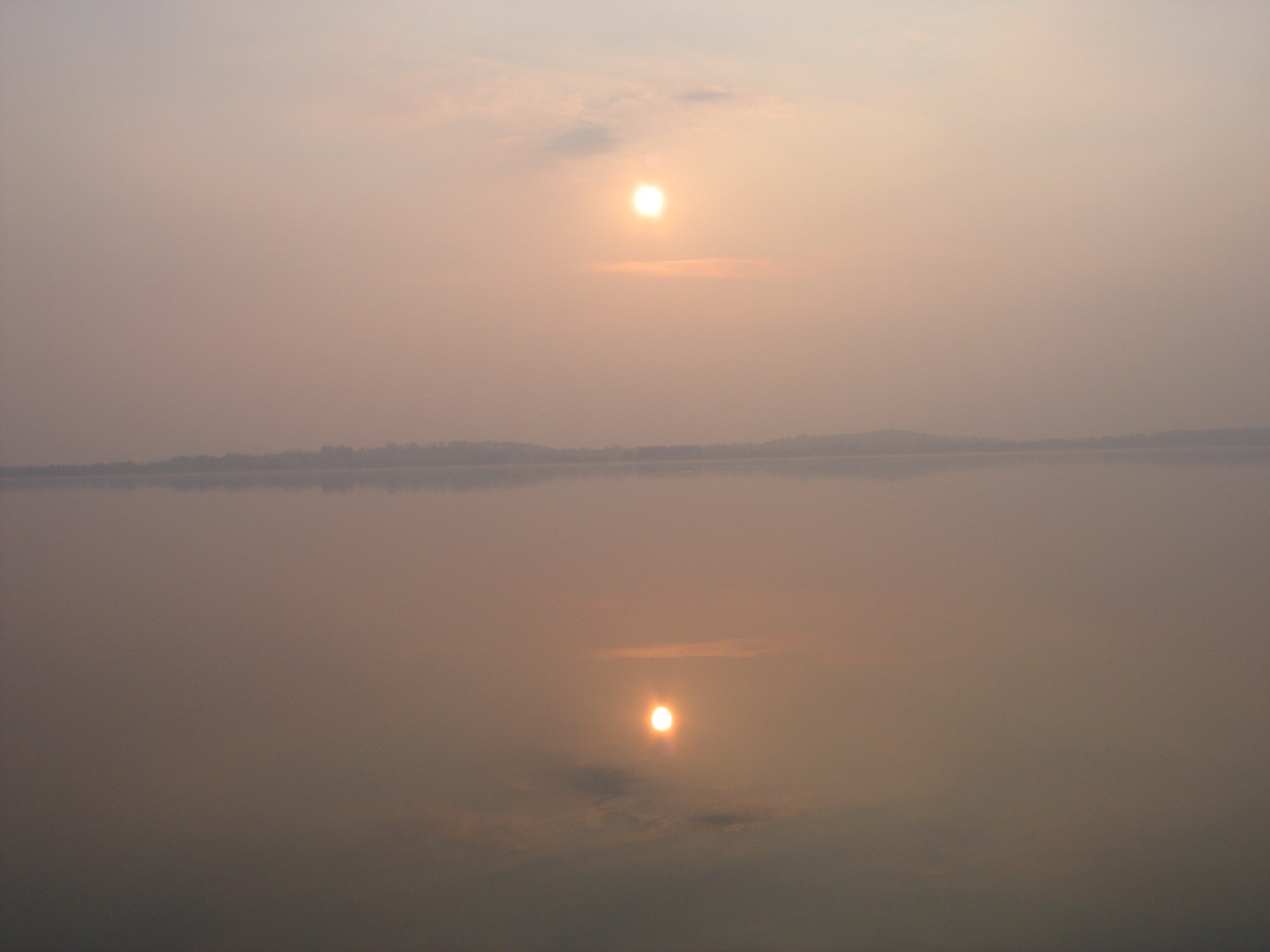 Lough Owel looking southwest